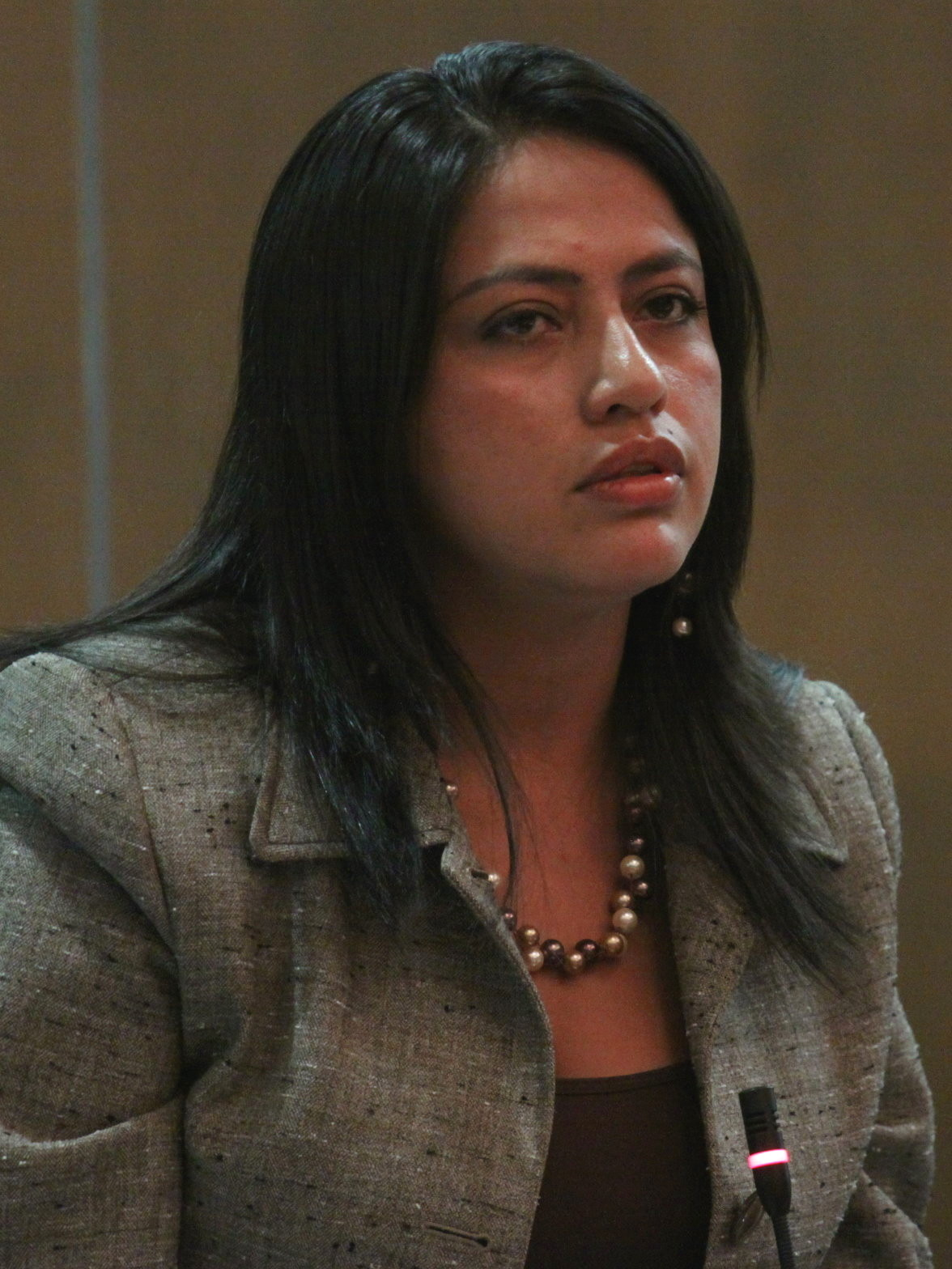 Paola Pabón. Cropped version of File:Asambleísta Paola Pabón en su intervención en la sesión No.- 59 del Pleno de la Asamblea Nacional (5031391287).jpg